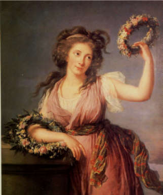 Portrait of Pauline de Beaumont (1768-1803)